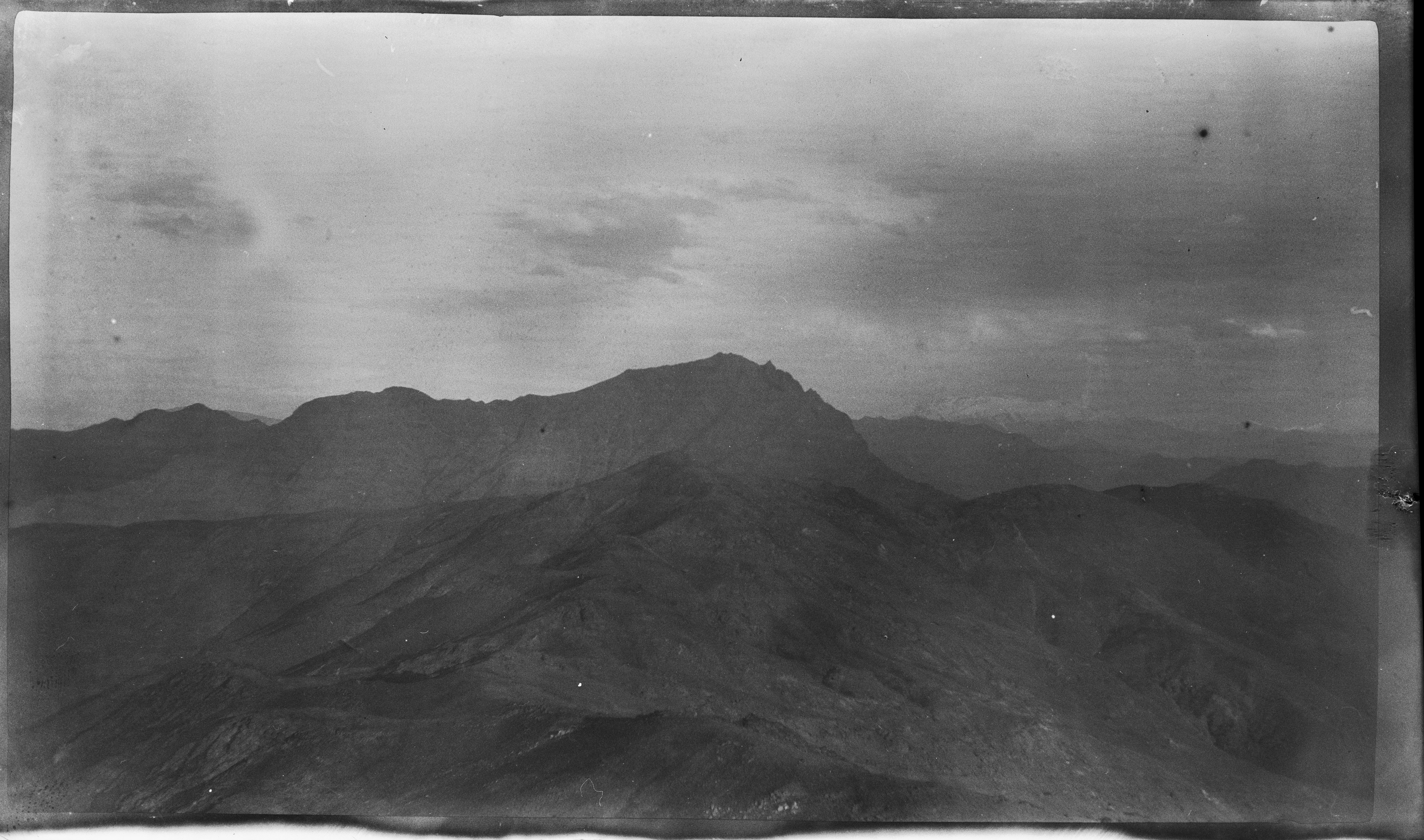 Shakh-i Baranta, Northeast of Charasia, Kabul Province, Afghanistan A sharp-pointed hill northeast of Charasia on the right bank of the Logar river.